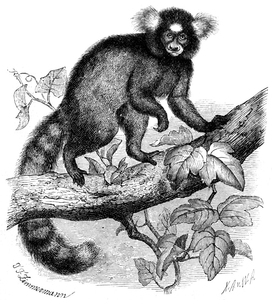 Common Marmoset, drawing; Height: 8.8 cm (3.4 in); Width: 8 cm (3.1 in) dimensions QS:P2048,8.8U174728;P2049,8U174728